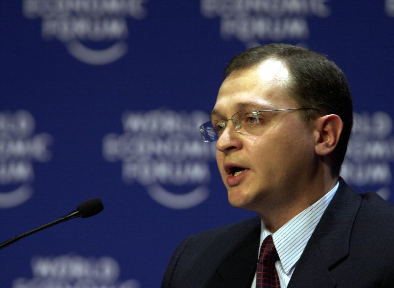 DAVOS/SWITZERLAND, 26JAN00 - Sergei Kirienko, Member of the State Duma; Leader, Political Movement, New Force (Novaya Sila), Russian Federation, during a session at the Annual Meeting 2000 of the World Economic Forum in Davos, Switzerland, January 26, 2000.